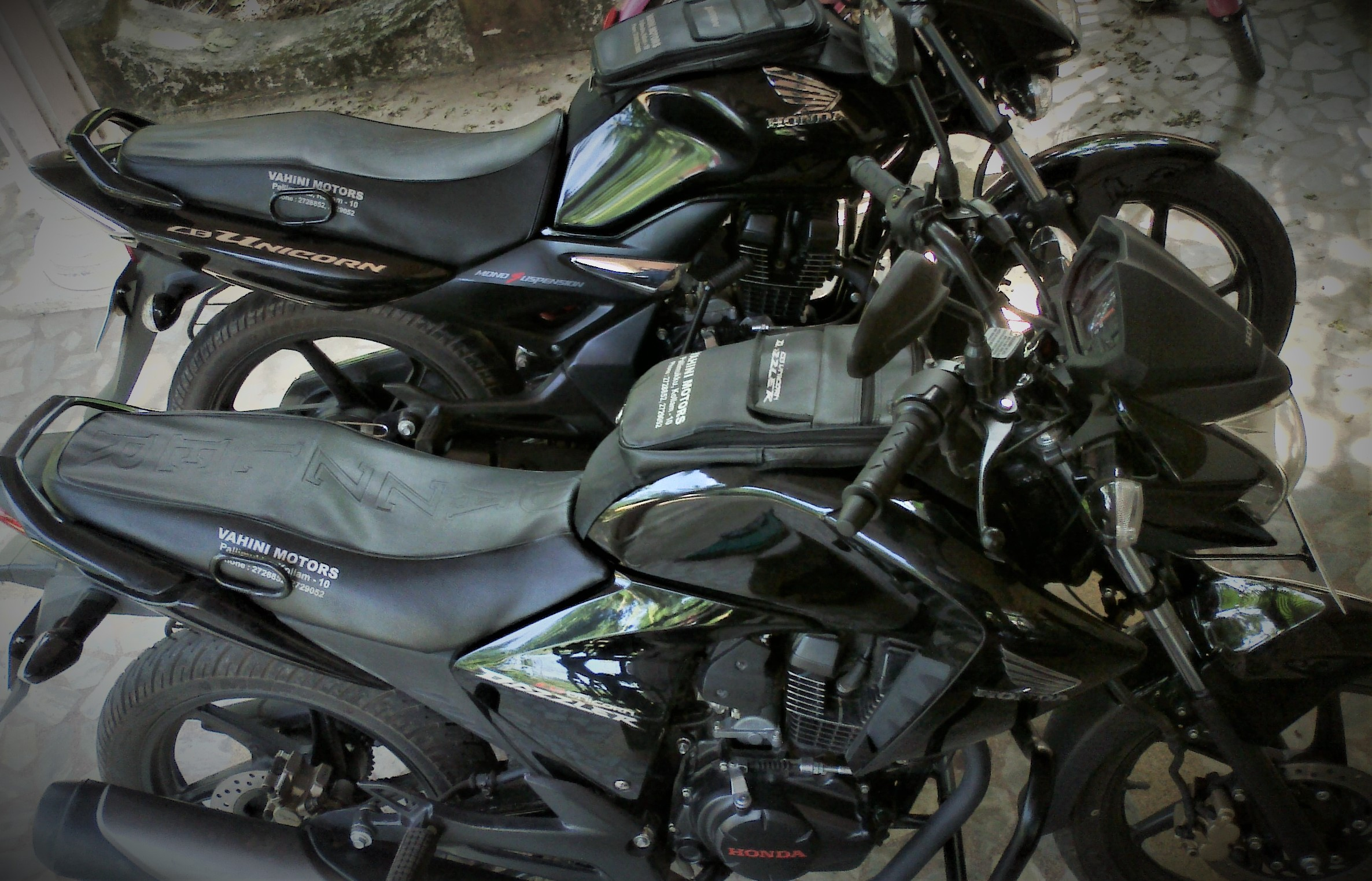 unicorn and dazzler